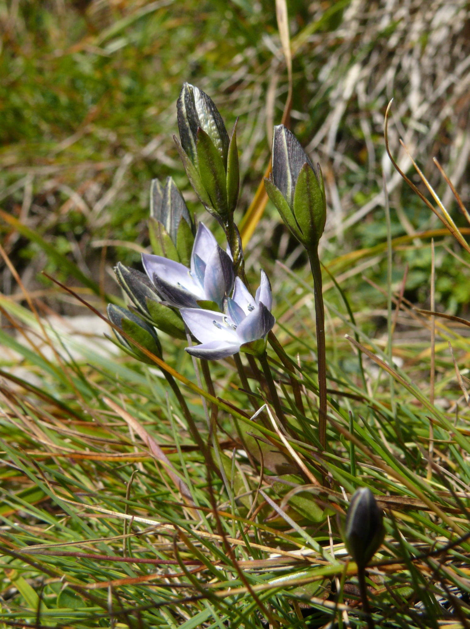 Lomatogonium carinthiacum, Naturpark Puez-Geisler, Italy